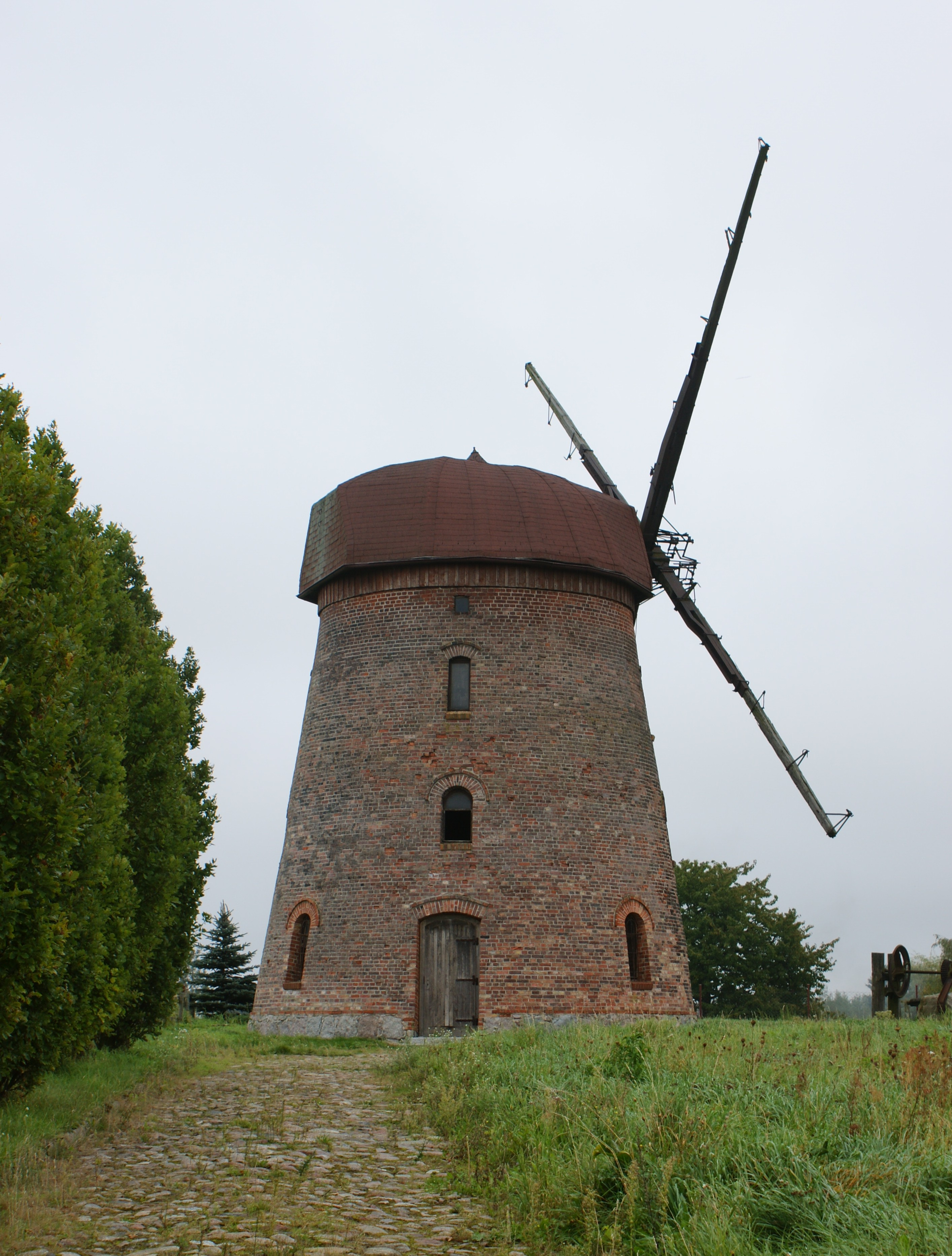 Dutch mill in Poradz, Łobez commune